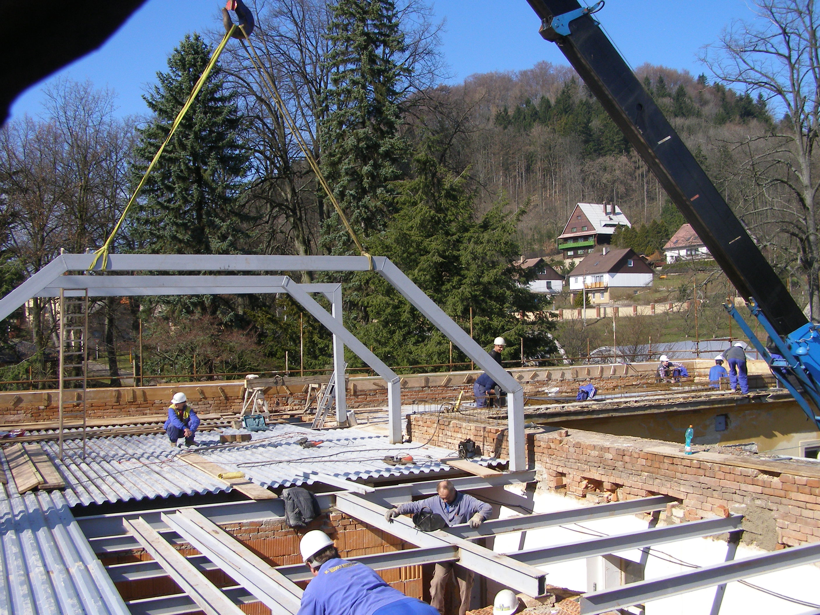 Generální rekonstrukce zámecké budovy, rok 2006